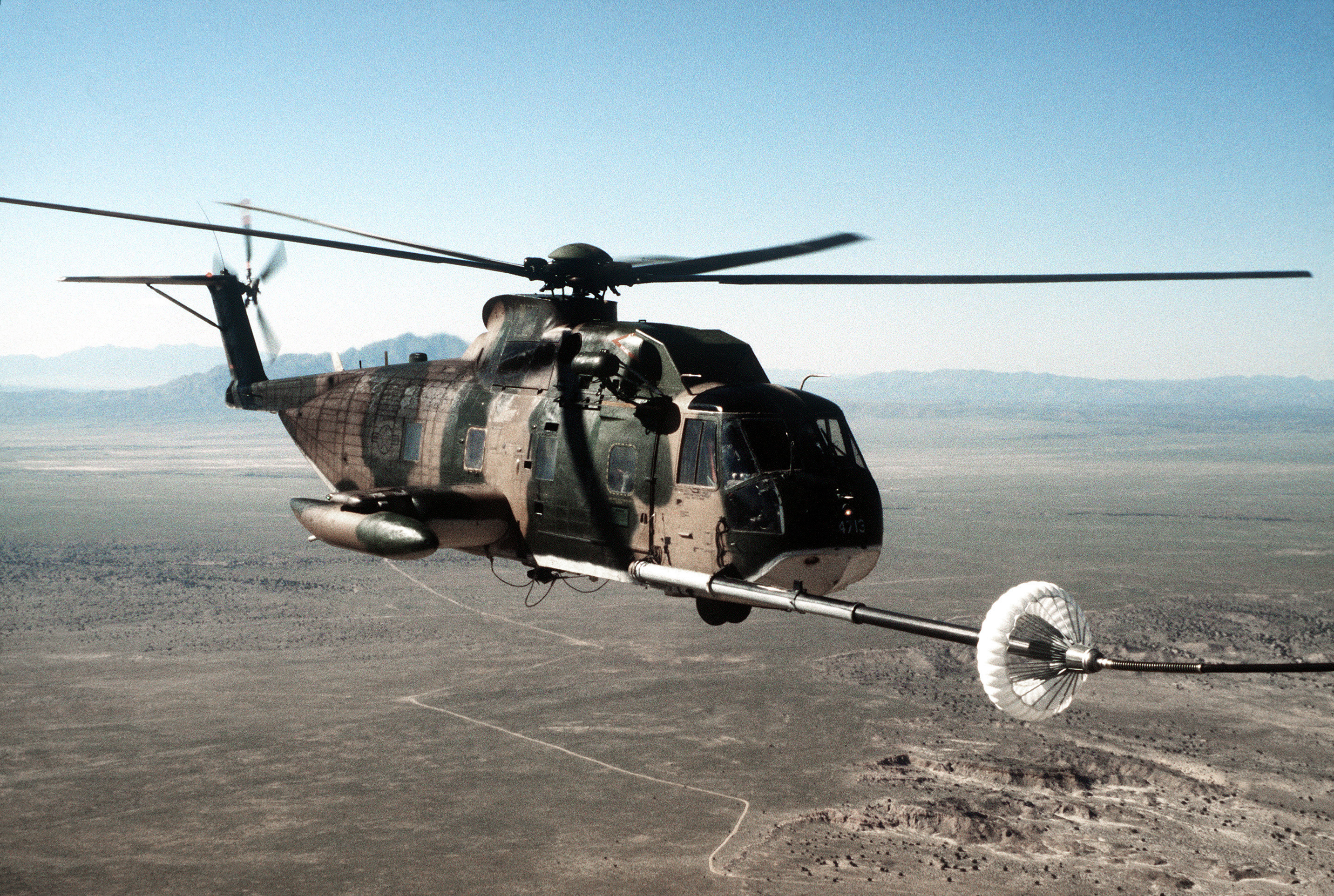 A U.S. Air Force Sikorsky HH-3E Jolly Green Giant helicopter being refueled from a Lockheed HC-130P Hercules during a chemical warfare training in the vicinity of Kirtland Air Force Base, New Mexico (USA), on 24 September 1980.